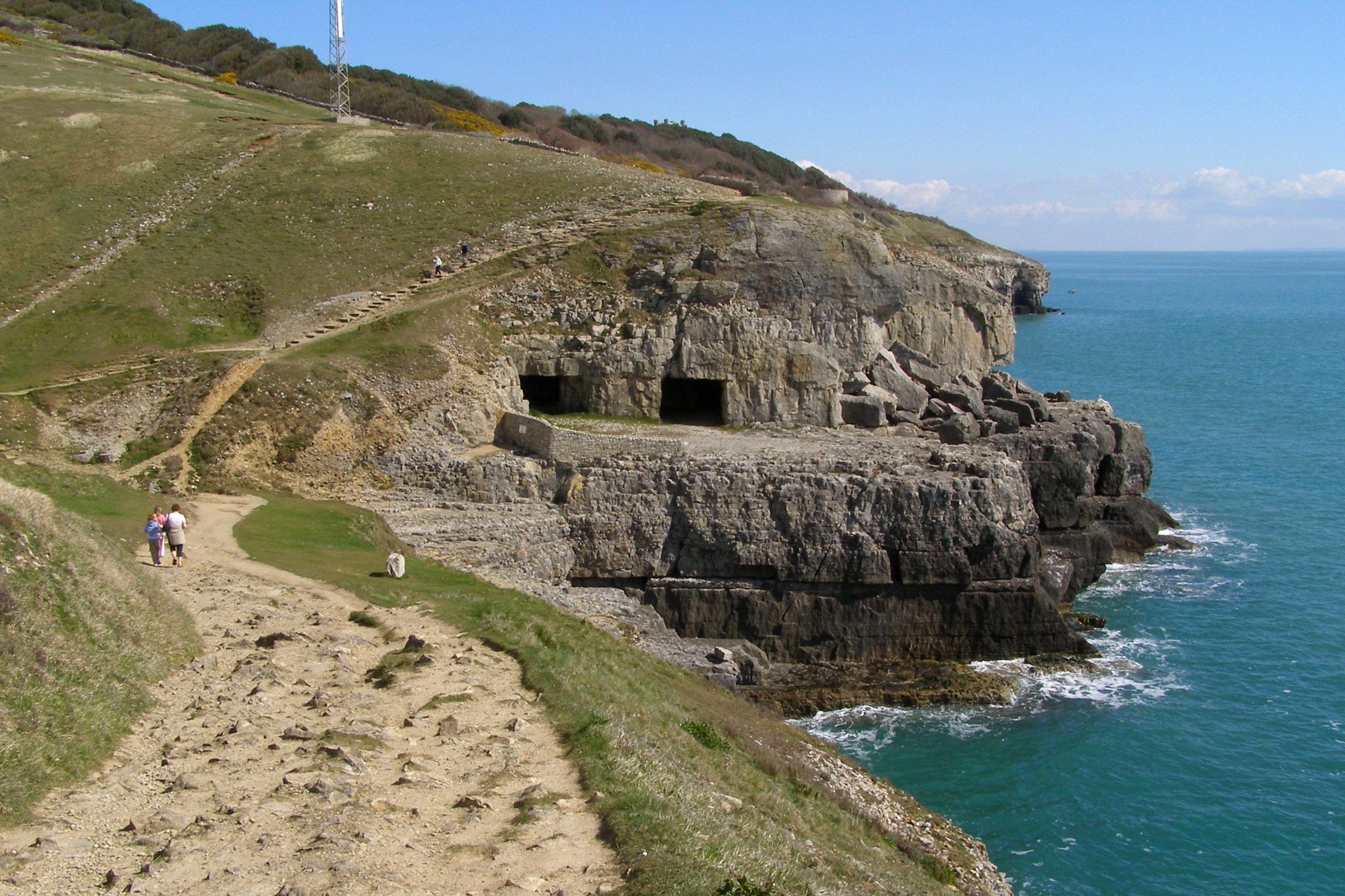 Tilly Whim Caves, from the coast path through Durlston Country Park, Dorset, U.K.